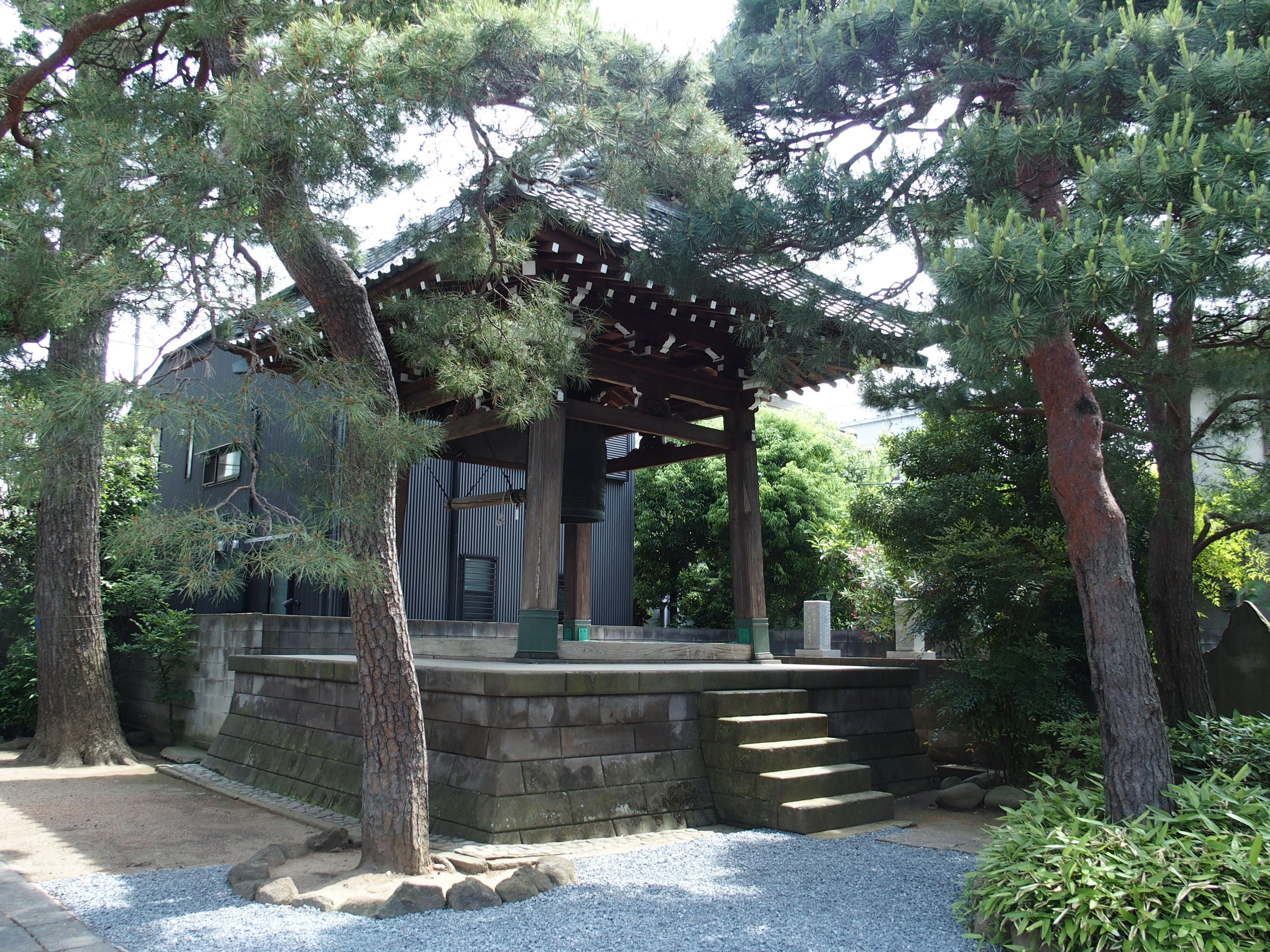 the belfry in the Komyo-ji temple